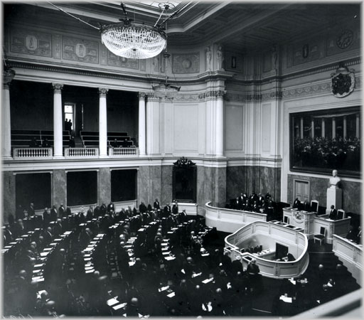 State Council in the Marie Palace.